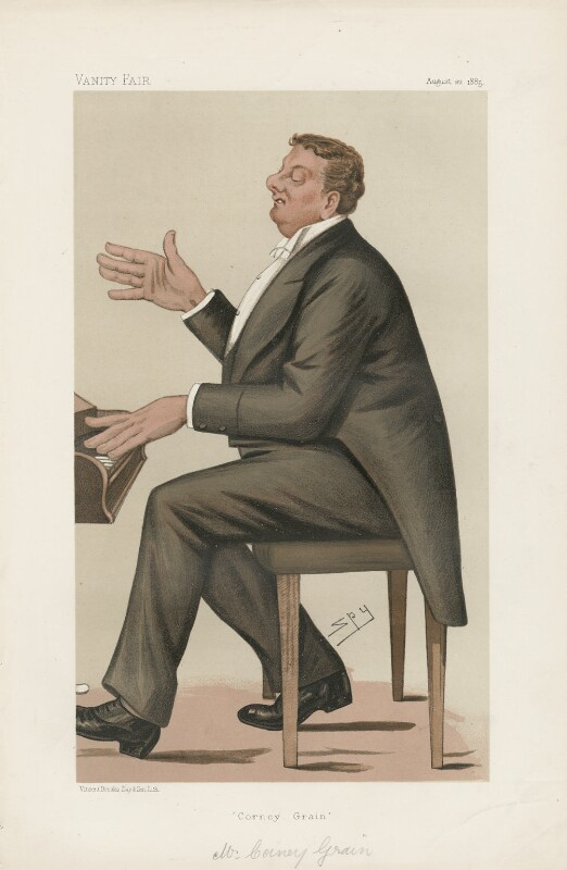 Caricature of Richard Corney Grain.